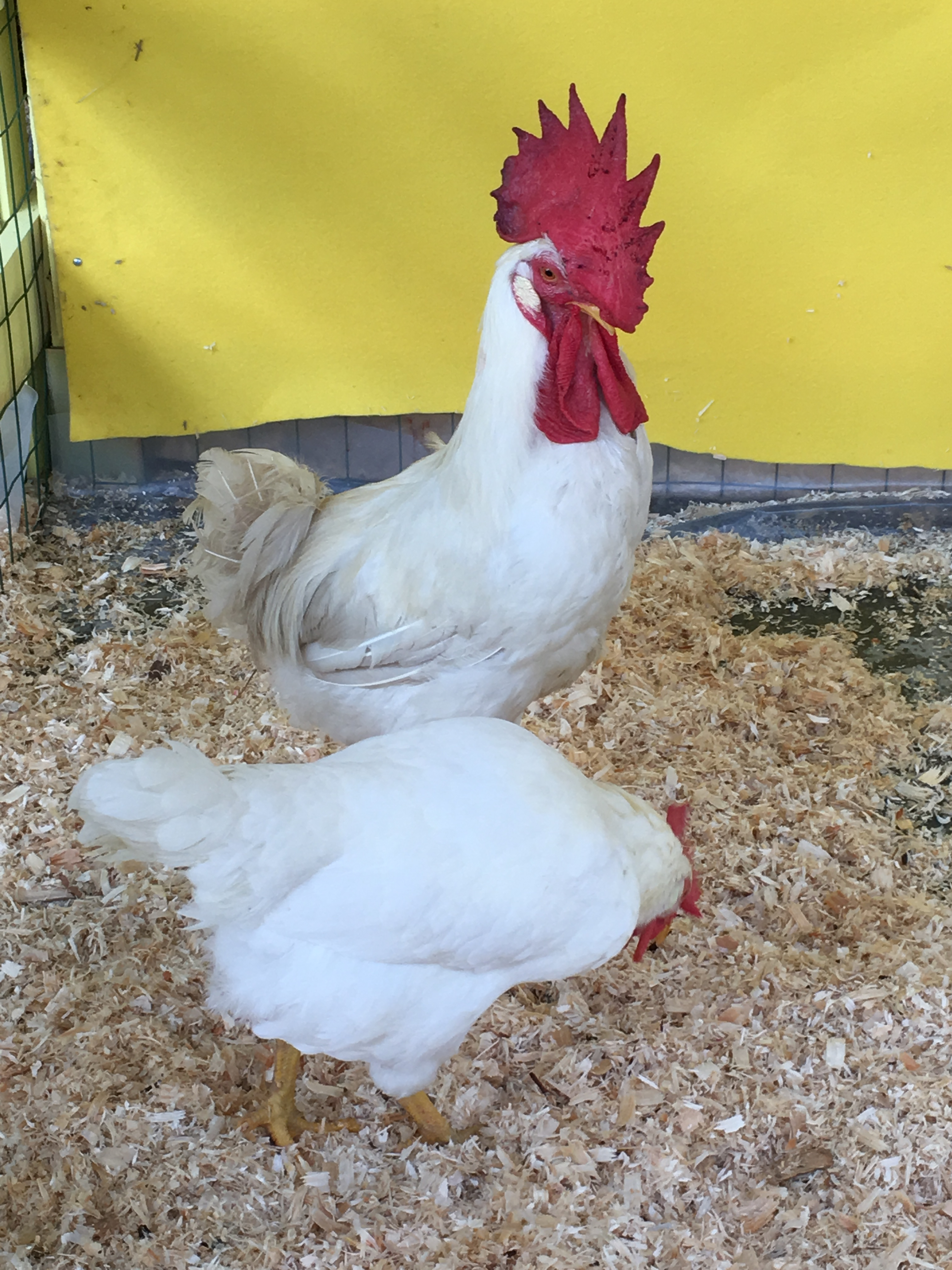 Valdarnese Bianca chickens at the Rural Festival, Gaiole in Chianti, Tuscany, Italy, 17–18 September 2016